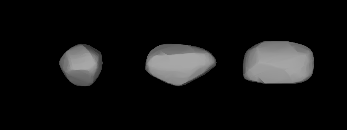 A three-dimensional model of 403 Cyane that was computed using light curve inversion techniques.